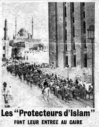 "The Protectors of Islam" make their entry into Cairo. British troops march captured Italian soldiers into Cairo in January 1942. Cropped from the link shown, lightened, all using GIMP.